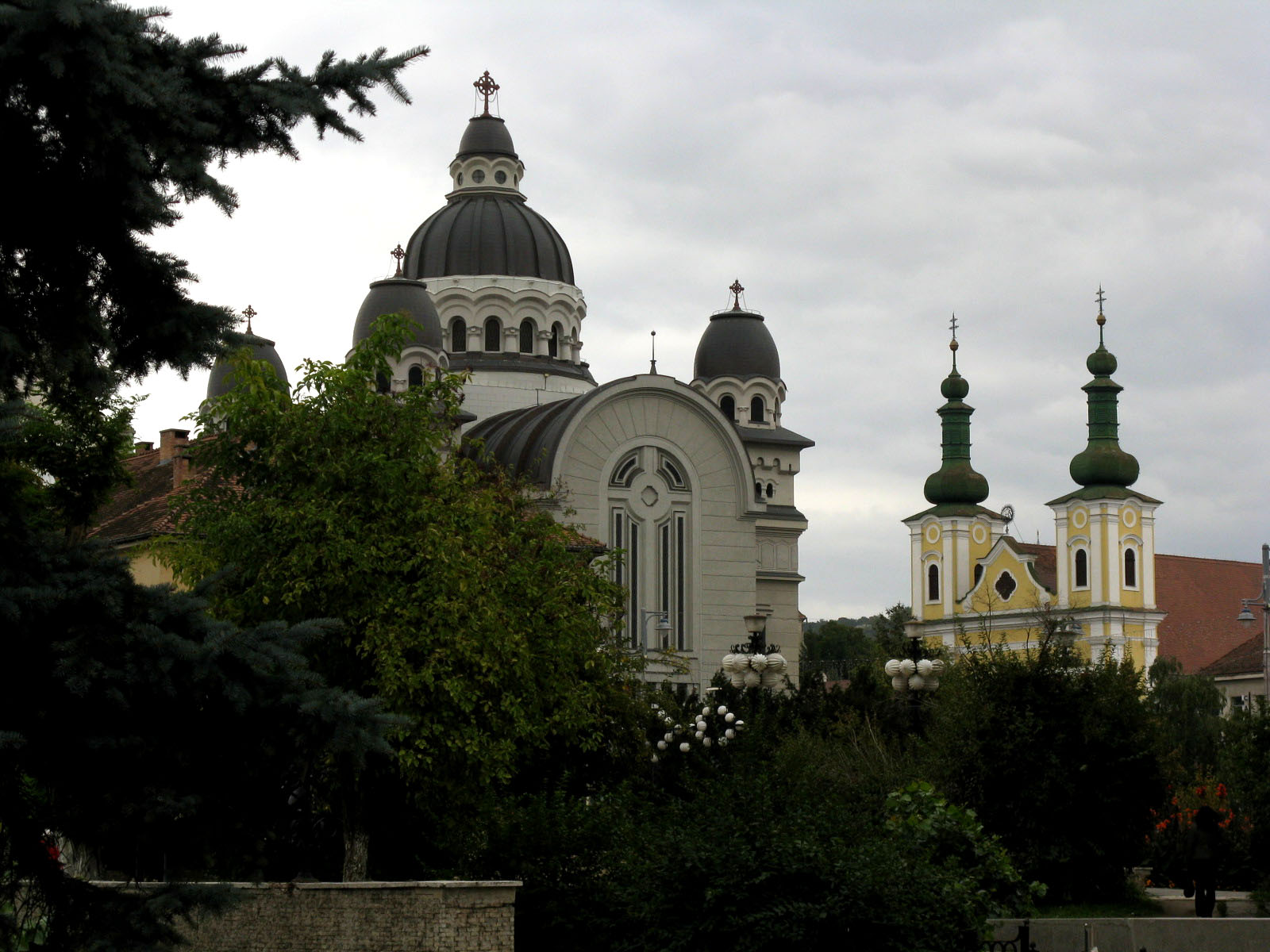 Piața Trandafirilor in Târgu Mureș; Orthodox and Catholic churches